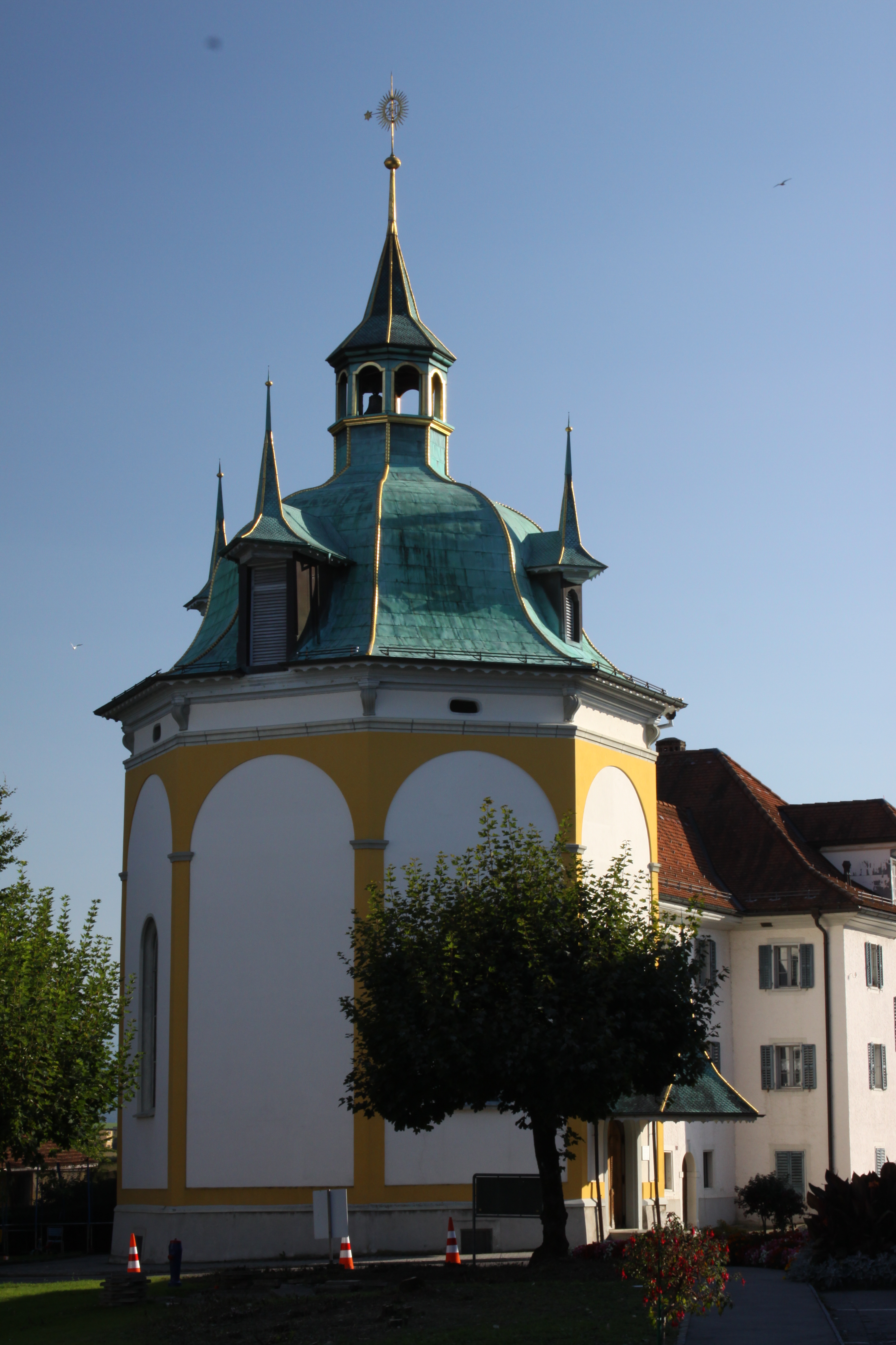 Chapel of St. Ignace, Route de la Rotonde 20, Marsens